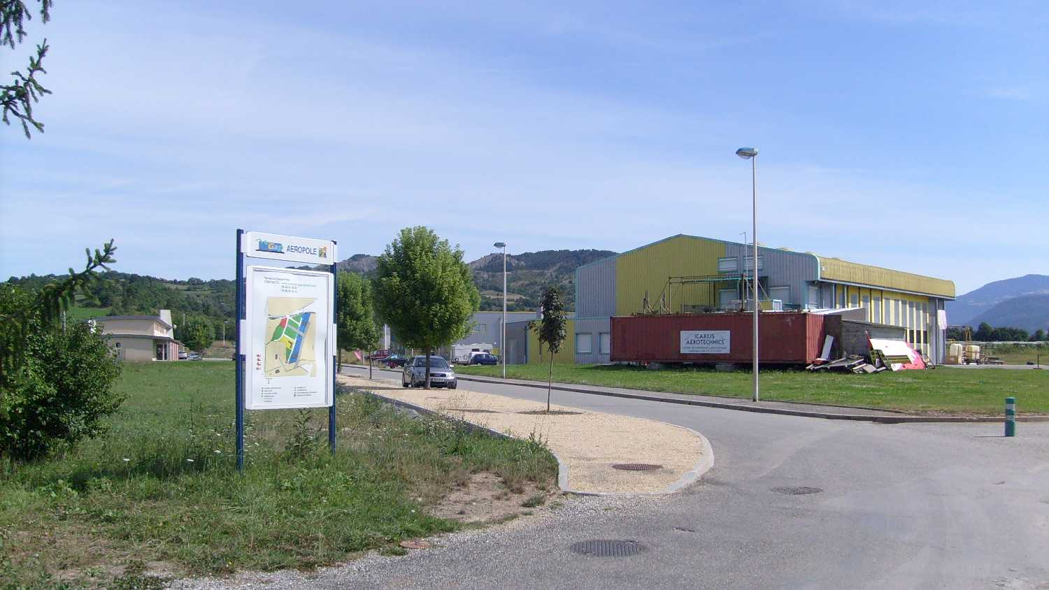 Aeropole( Tallard, Hautes-Alpes, France)